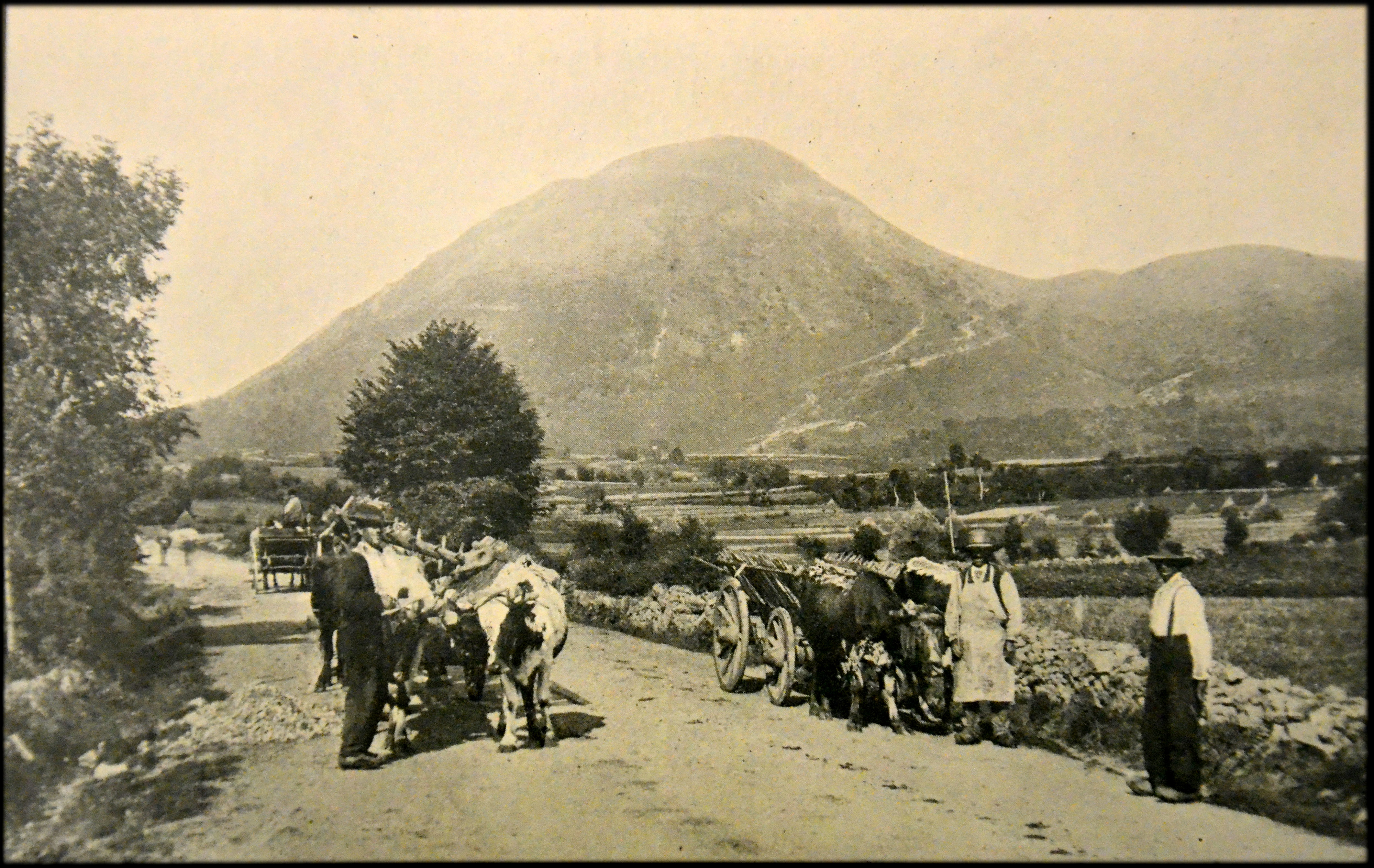 Old french picture (here enhanced with Photoshop), captioned "Le Puy-de-Dôme, near Clermont-Ferrand", found in an article in the French old magazine "Revue illustrée" (Bound Tome 1902) The article was entitled "Sensations of Auvergne. "